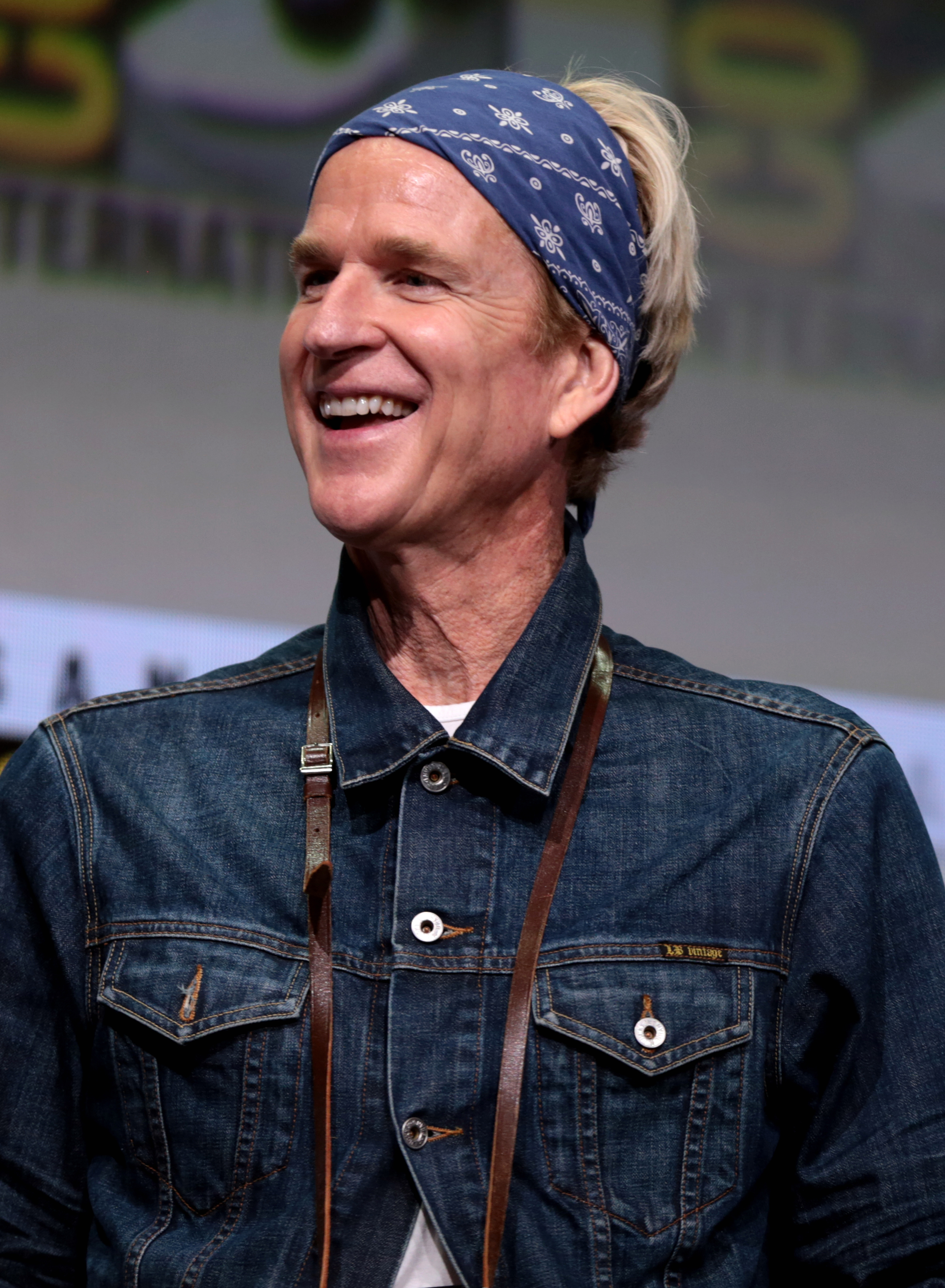 Matthew Modine speaking at the 2017 San Diego Comic-Con International in San Diego, California.